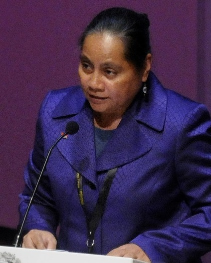 Teima Onorio at WUF7 2014 in Medellin